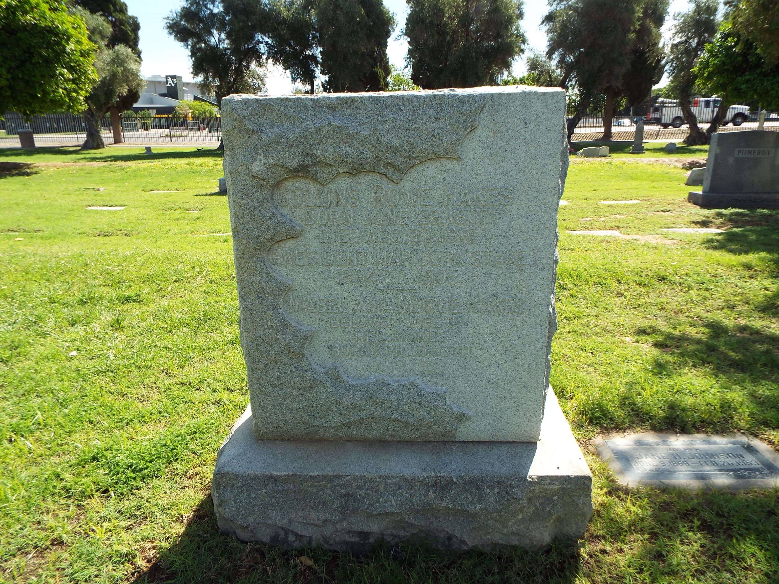 Grave site of Collins Rowes Hakes (1837-1916) and Mabel Ana Morse Hakes (1840-1909). The Hakes were the first to discover gold in the Goldfield area by the Superstition Mountains.